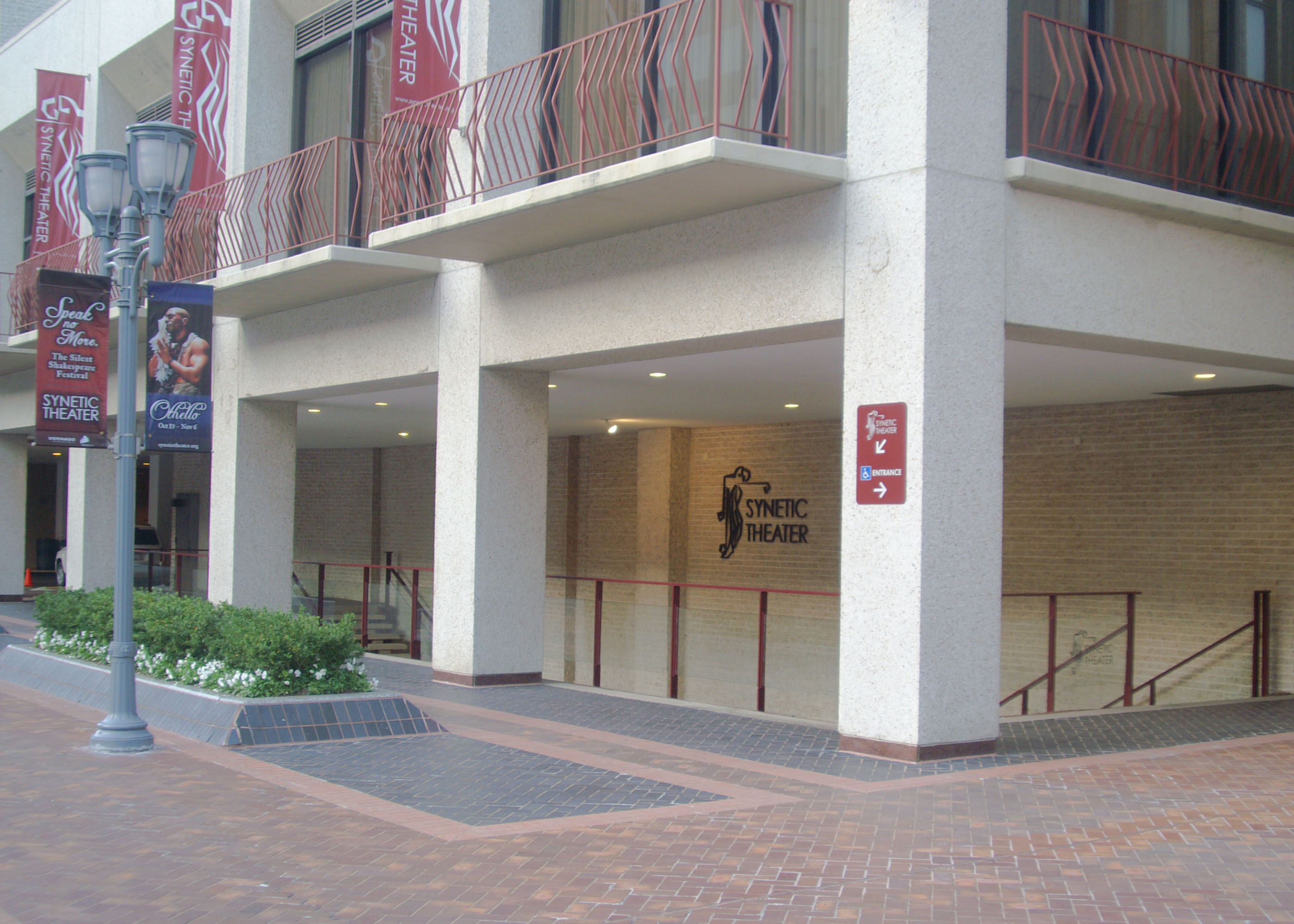 The above ground view of Synetic Theater in the Crystal City Area of Arlington Virginia